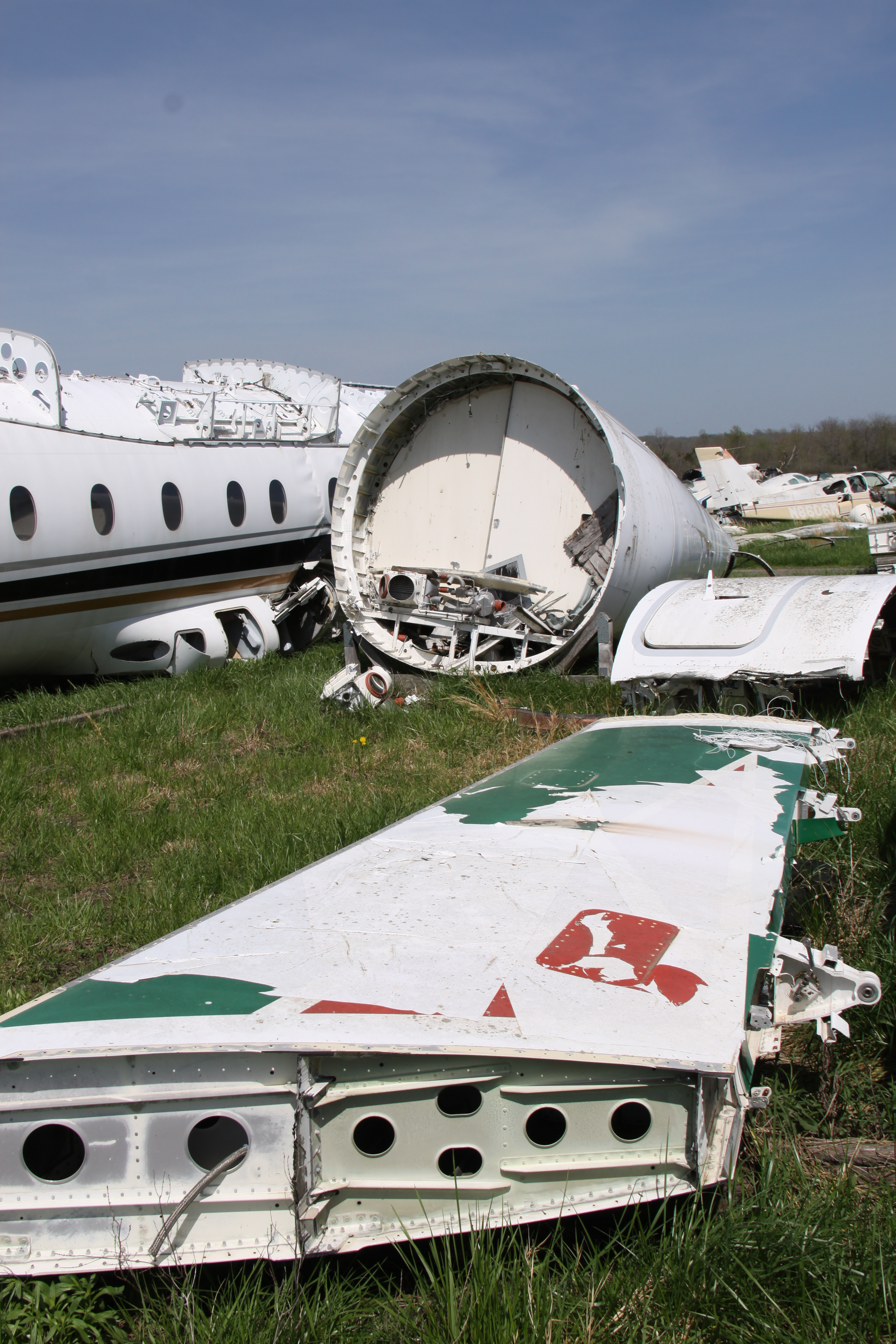 At Rantoul, KS